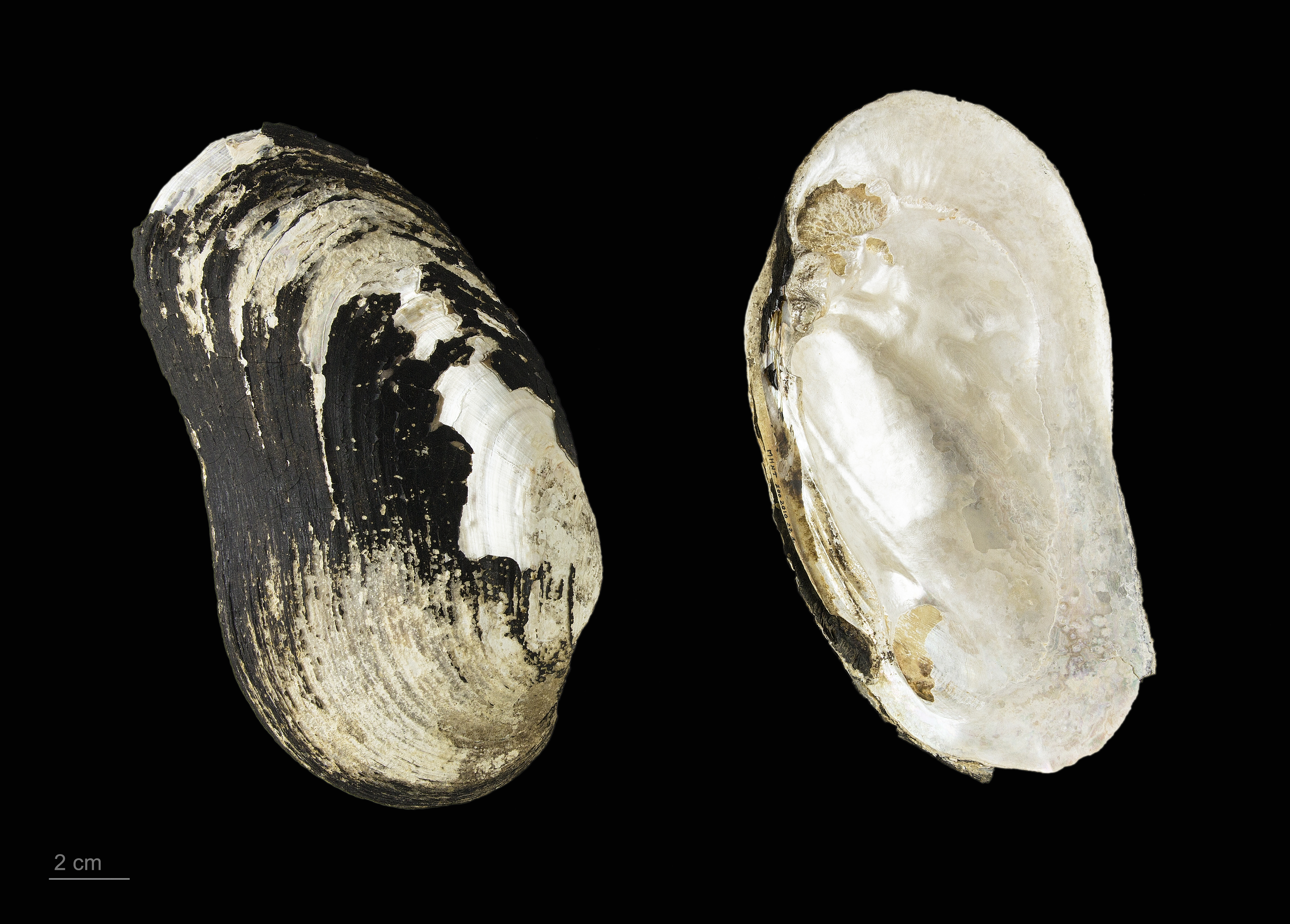 shell, Spengler's freshwater mussel